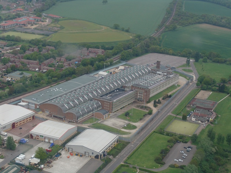 The Bank of England site in Loughton, Essex where paper money is printed (coinage is minted in Wales). The Bank of England sub-contracts this work to Debden Security Printing Ltd, owned by De La Rue plc.